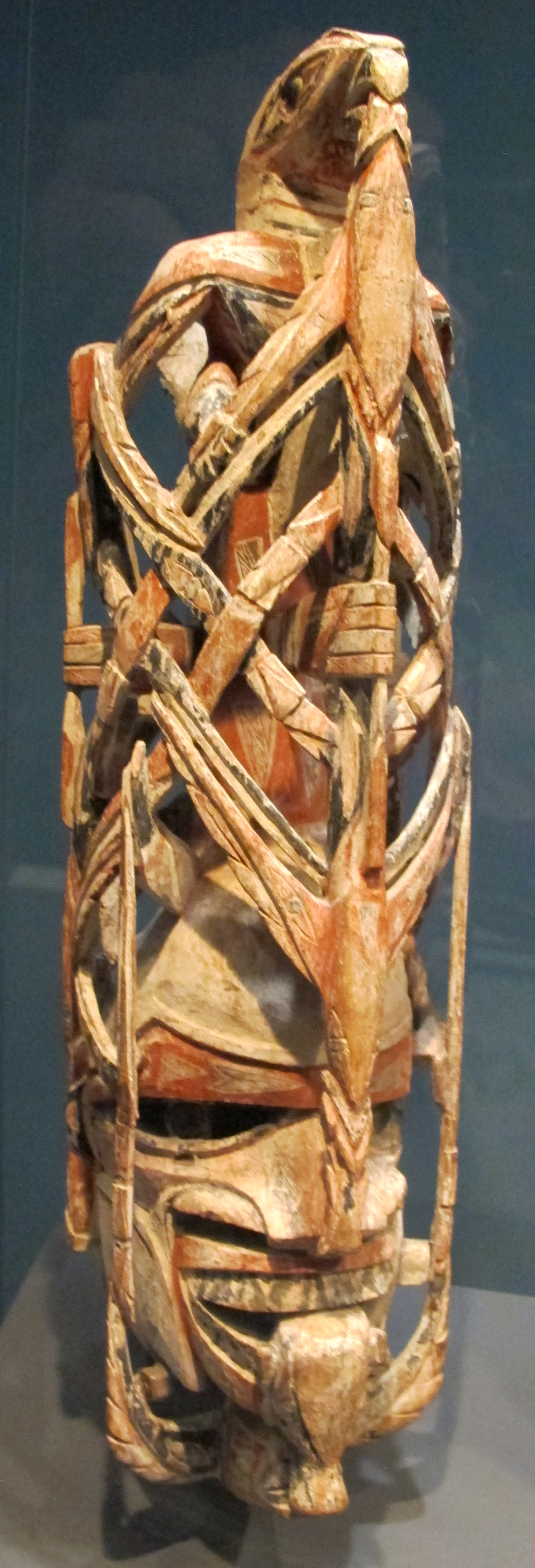 Oceanic art in the Historisches Museum Bern